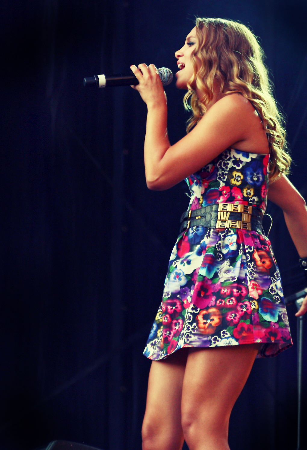 Agnes Carlsson at Rix Fm Festival, Kalmar, Sweden.